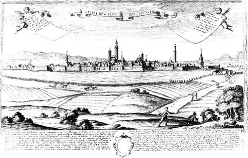 Székesfehérvár, by F.B.Werner,ca 1740.